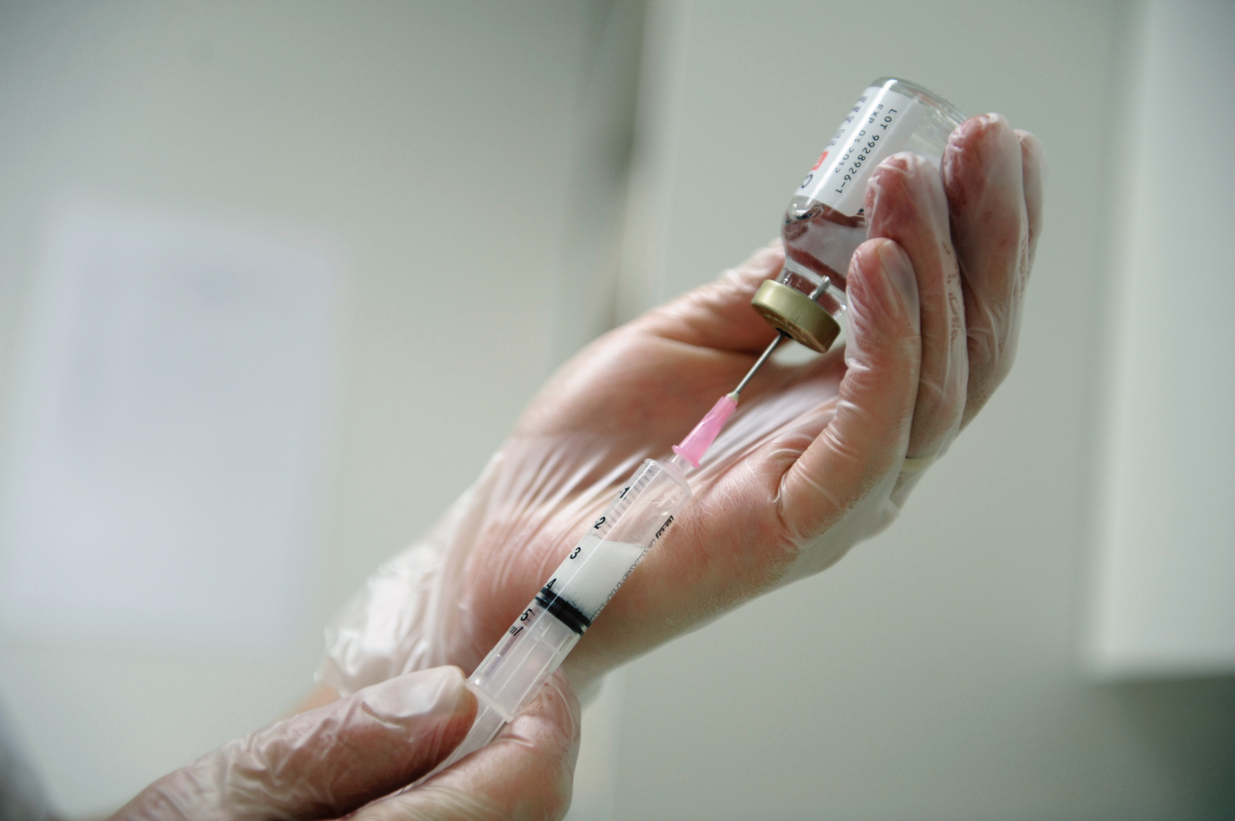 Spruta Keywords: Health, Care